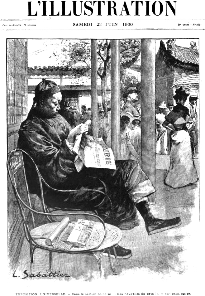 L'Illustration, French newspaper.